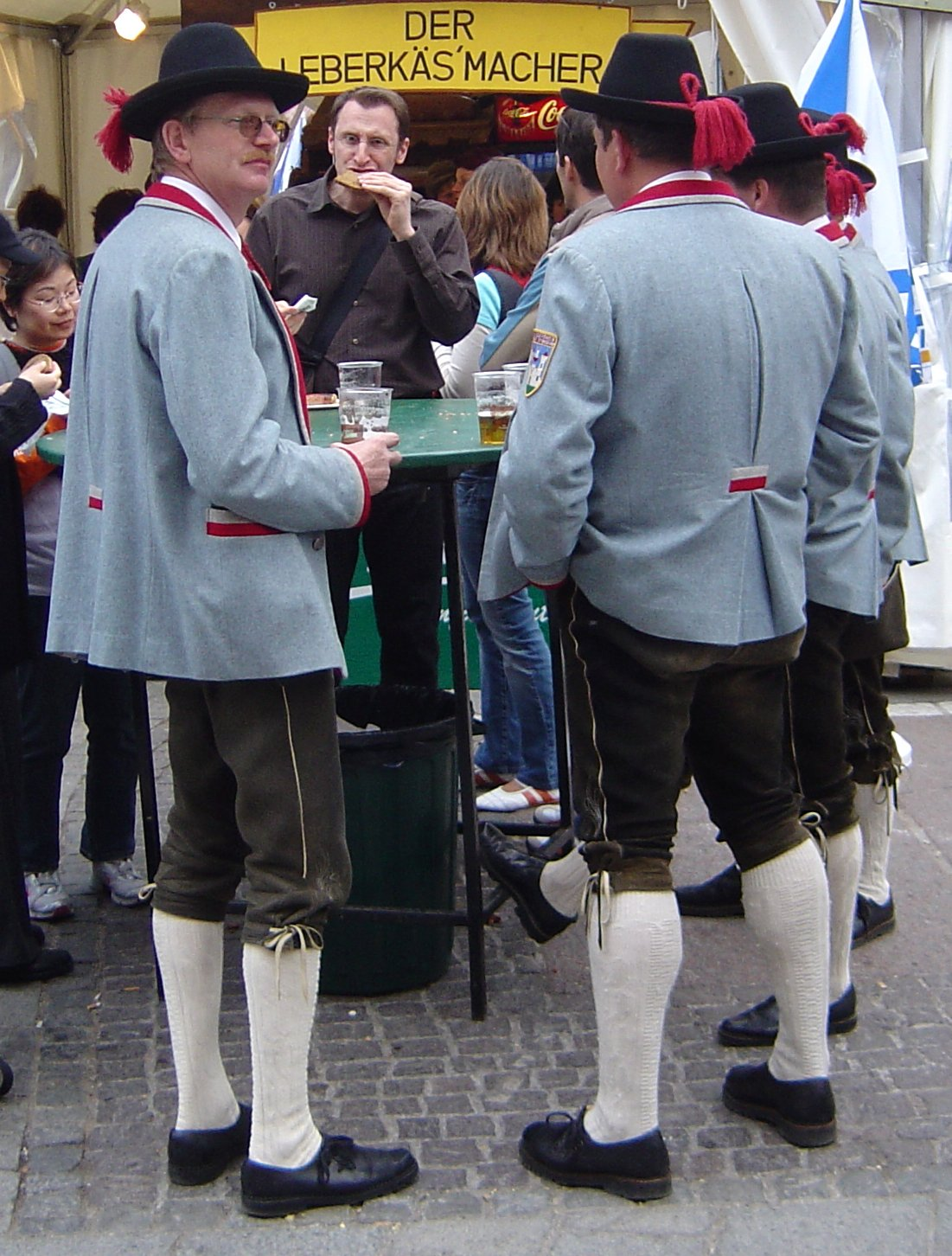 An Austrian folkloric group in Vienna.